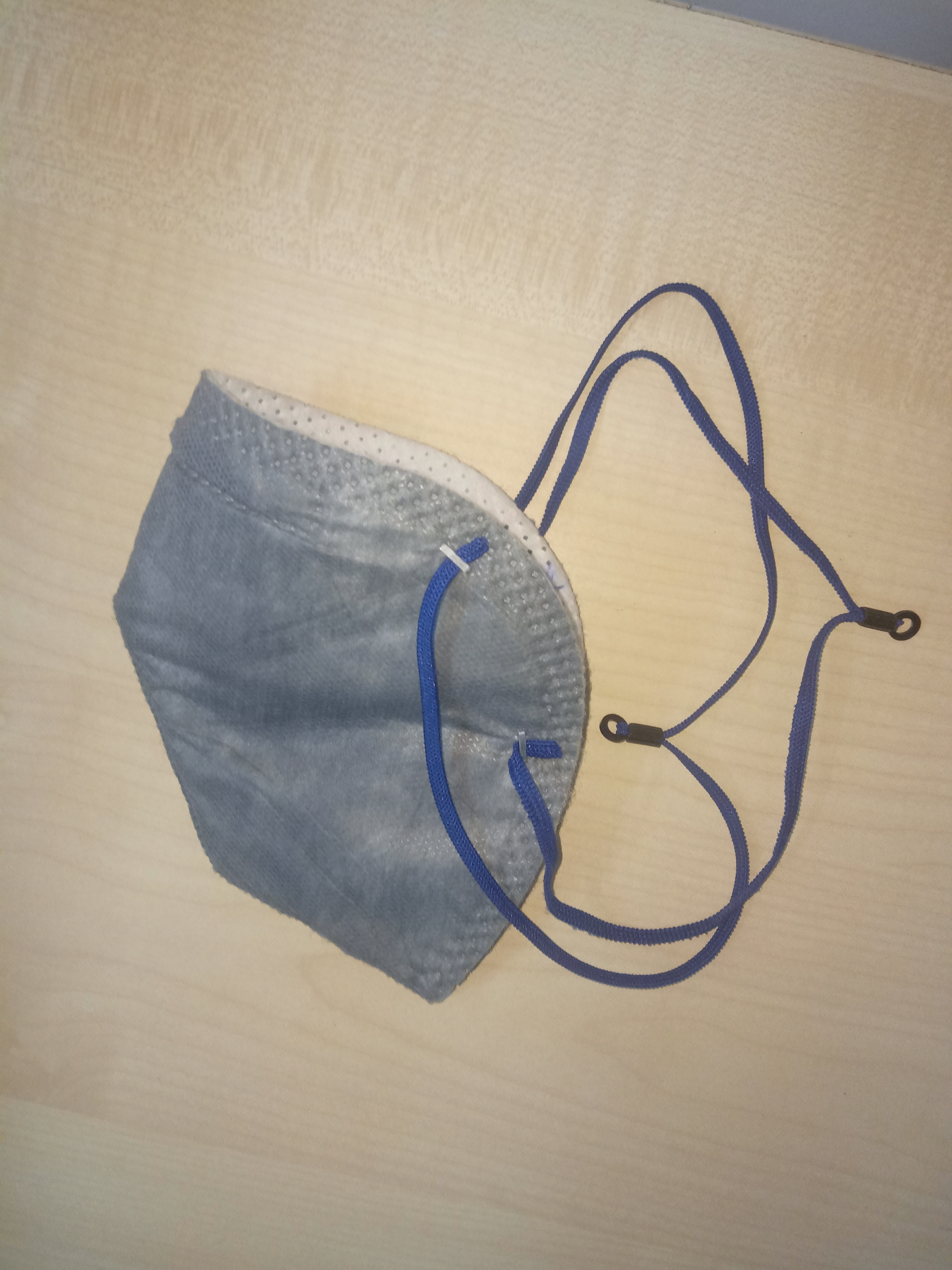 Mask used for Breathing protection Disposable breathing mask